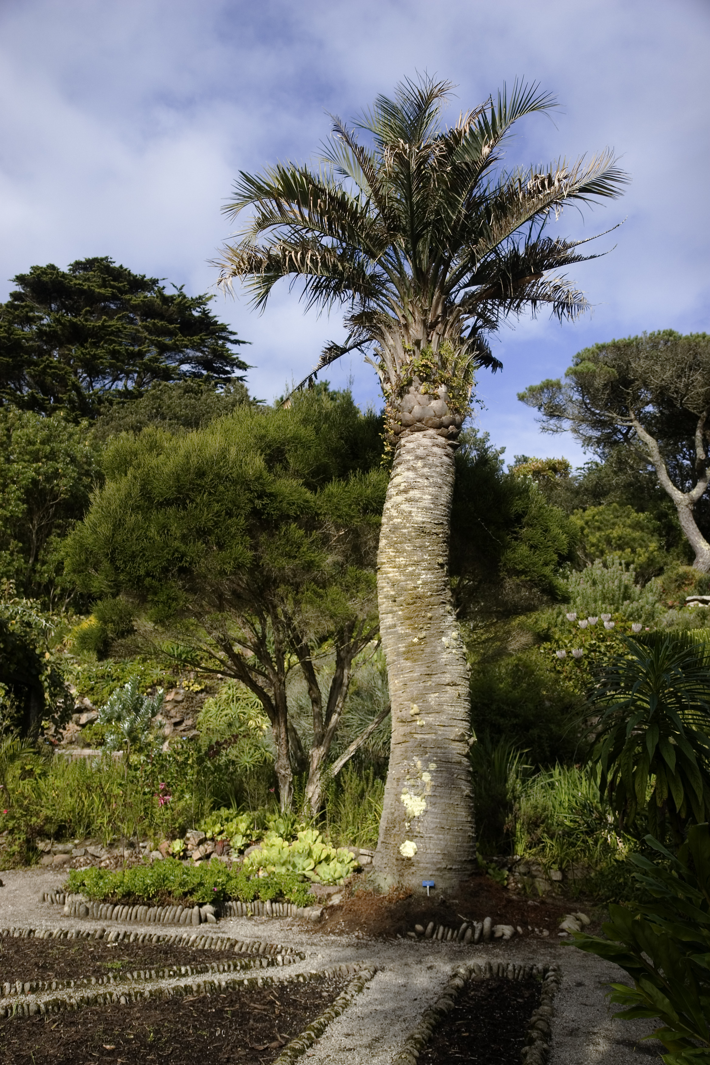 Butia capitata, Tresco, Isles of Scilly, UK